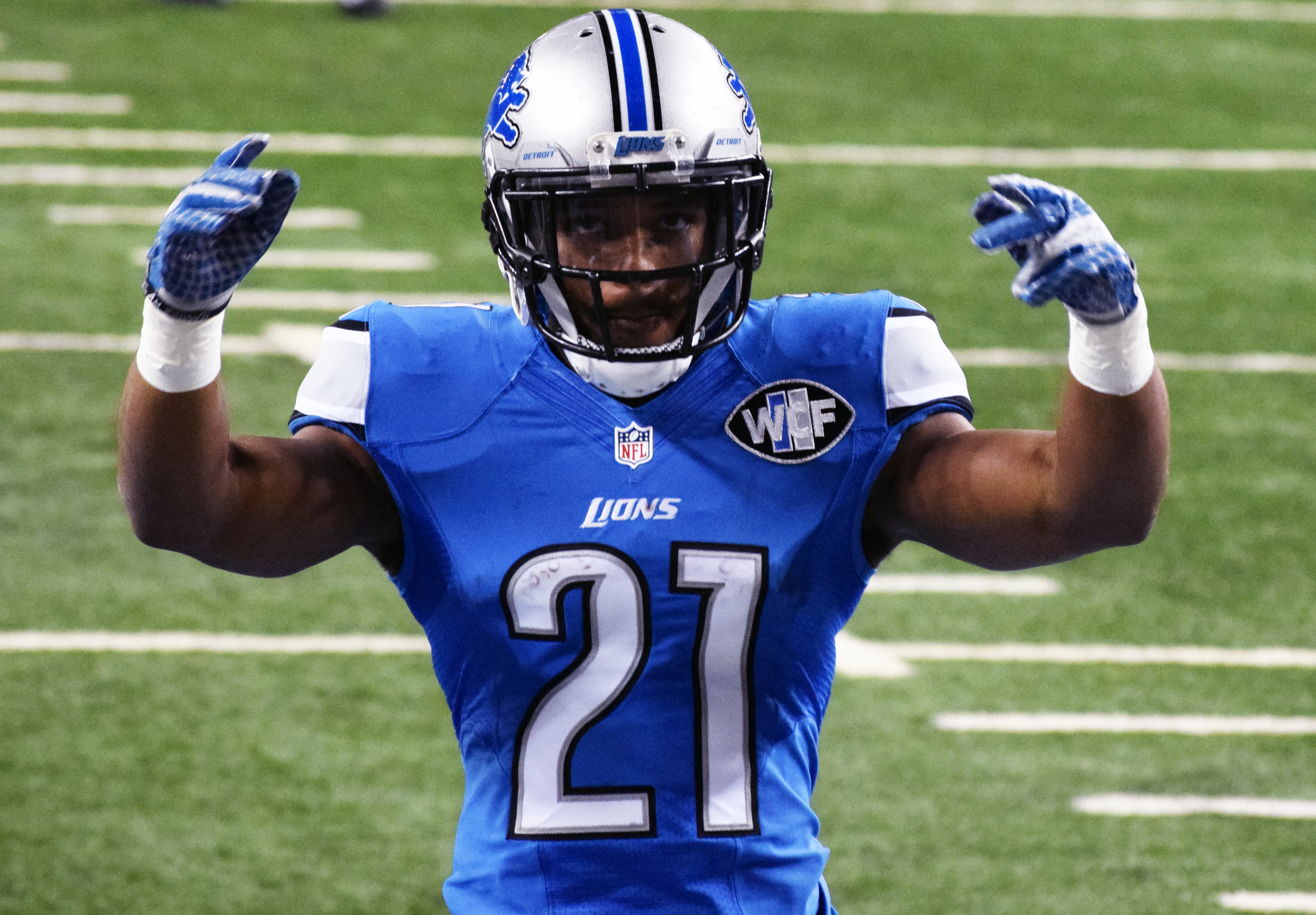 Ameer Abdullah Photo Shot on December 27 2015